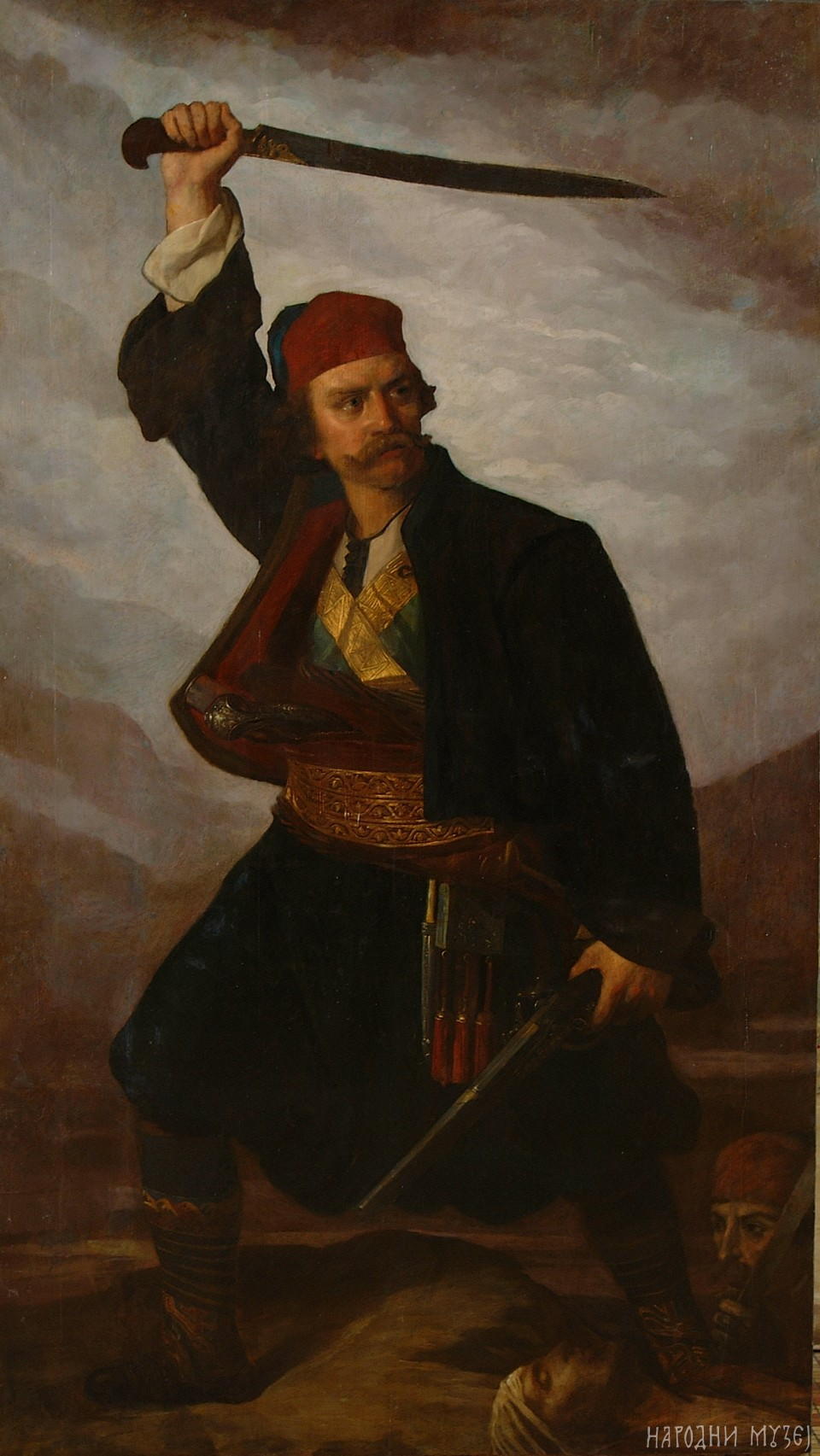 Steva Todorović, Vasa Čarapić, 1856-58.